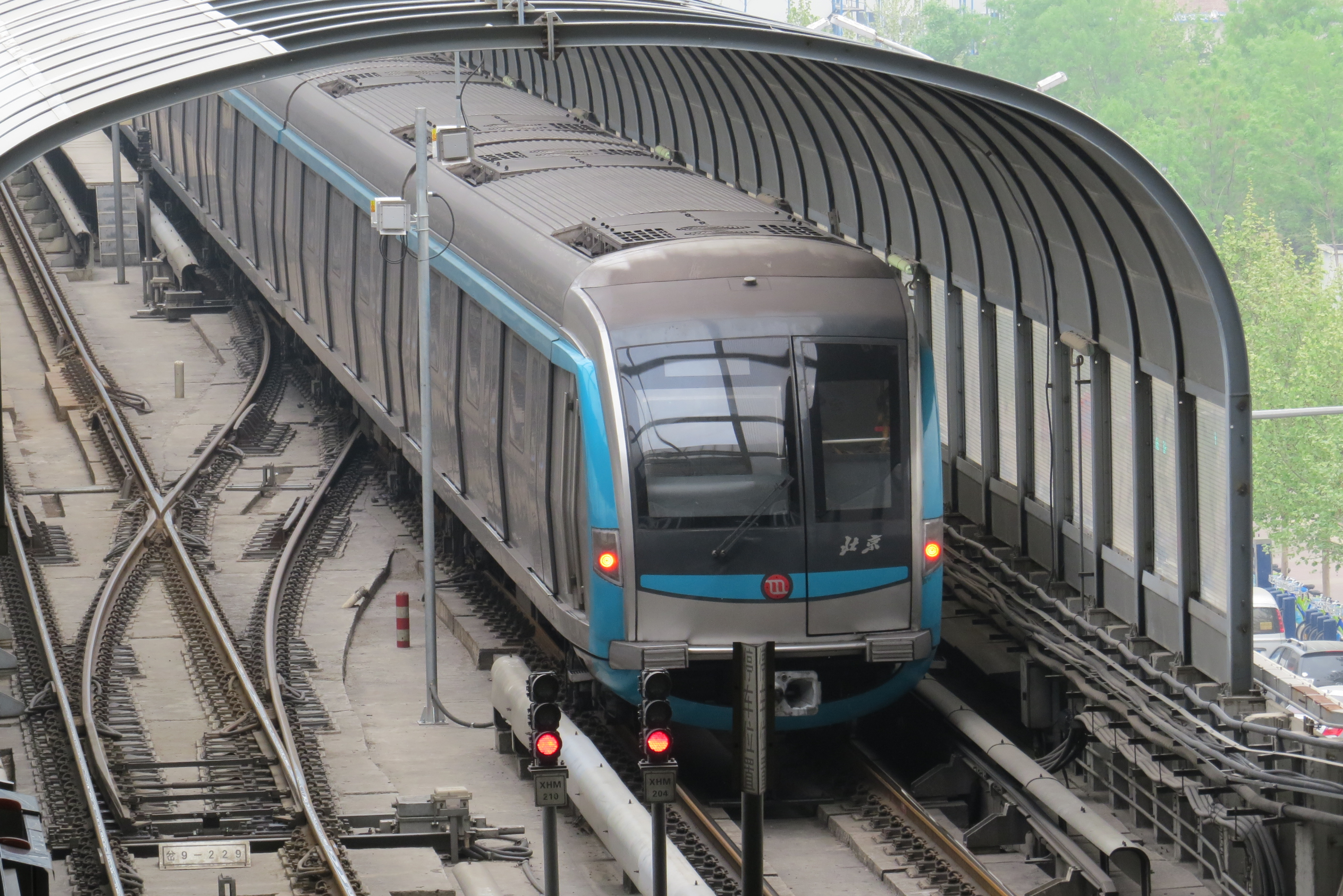 Spotted on the bridge.